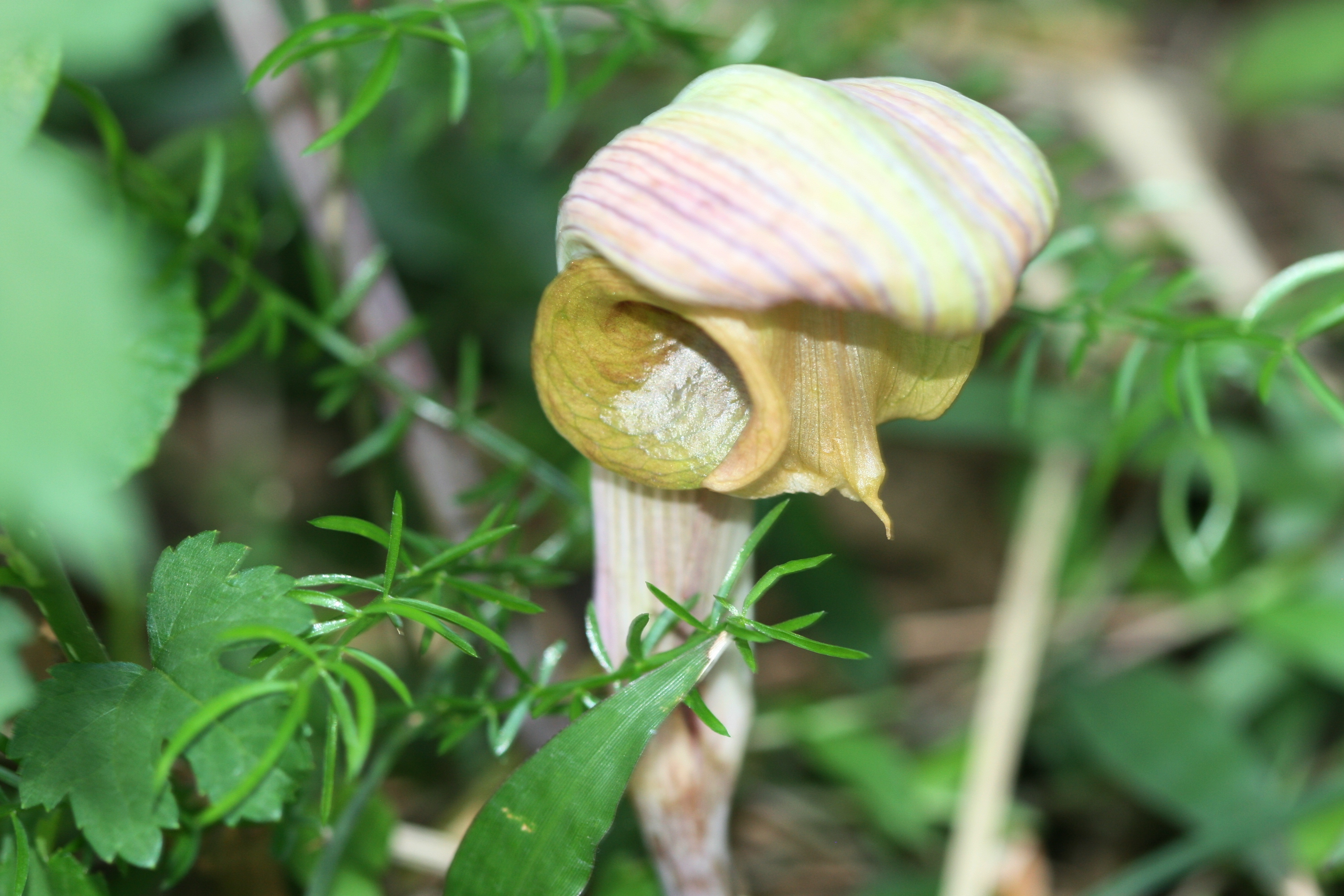 Arisaema ringens - Japanese Cobra Lily